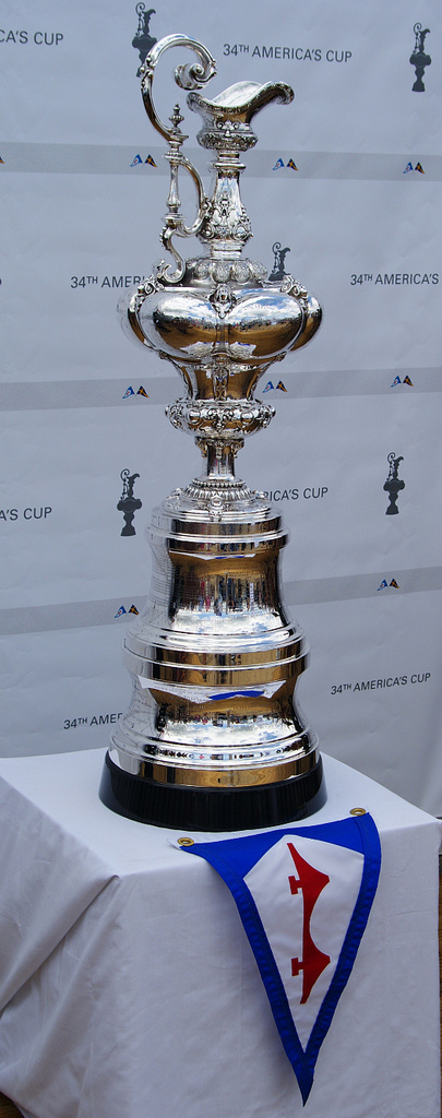 The original cup (additional base section now added) was donated for the winner of the first 'Round the Island' race of 1851. The winner, from the other side of the Atlantic, gave its name to the America's Cup. As of 2010, Britain are still to win this trophy, which was on display at the inaugural '1851 Cup' event, at Cowes, Isle of Wight. As in 1851, the US again triumphed in the 'Round the Island' race, although Team Origin (UK) won the overall series.